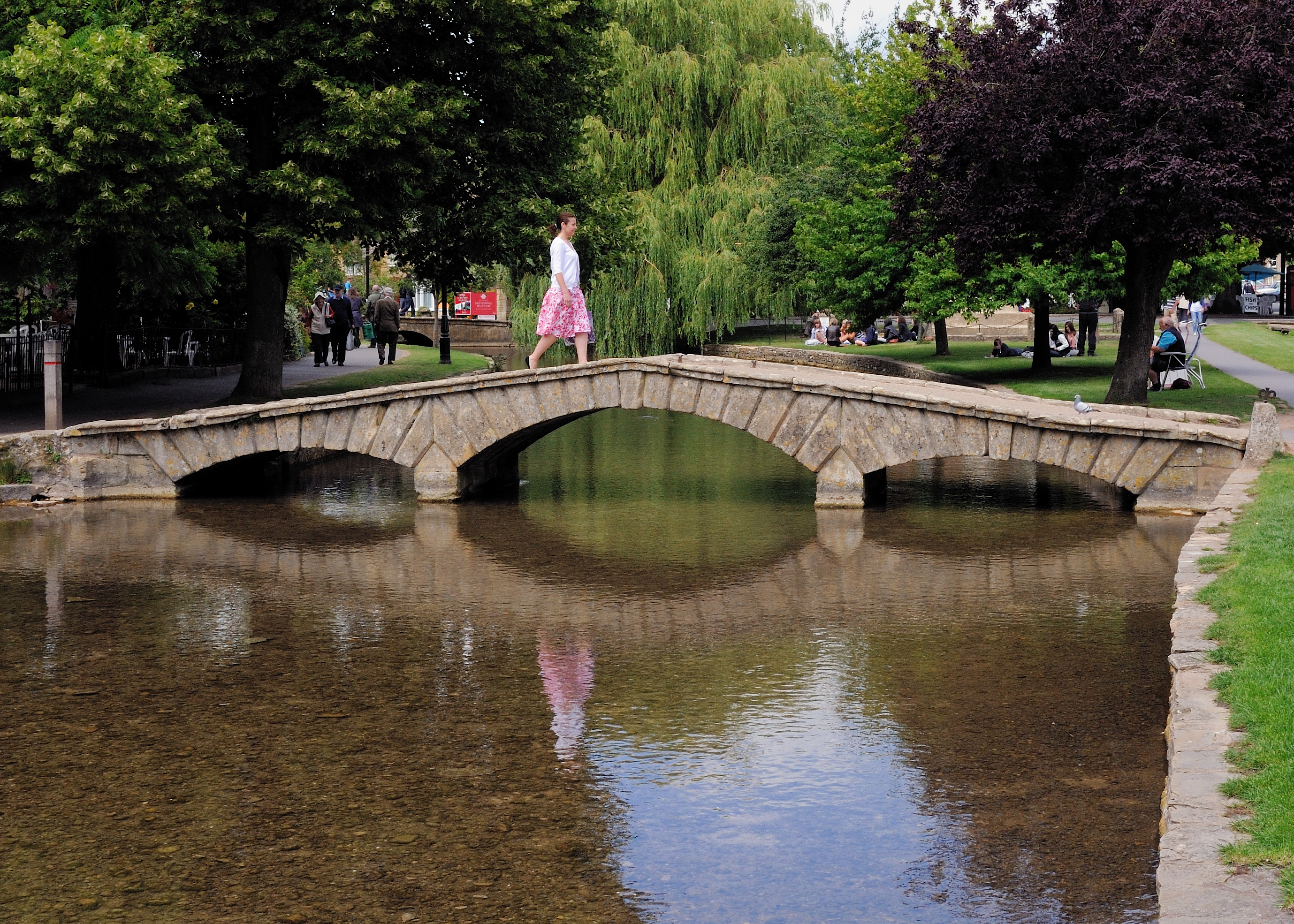 A pedestrian bridge over the River Windrush in Bourton-on-the-Water.